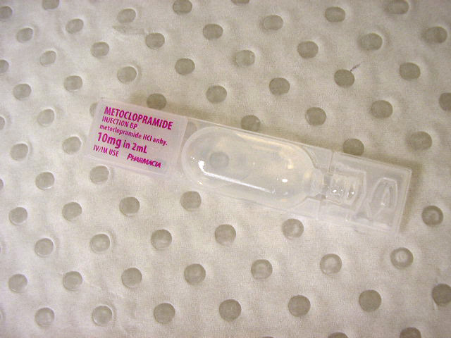 plastic 10mg metoclopramide ampule